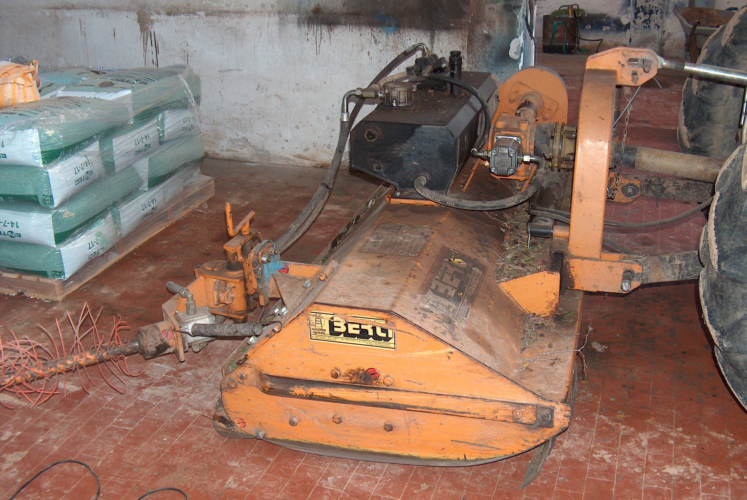 Shredder machine. – Professional Institute of Agriculture and Environment "Cettolini" of Cagliari (Sardinia, Italy) – Associated School of Villacidro (Sardinia, Italy)